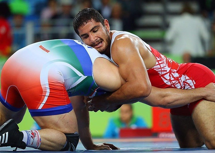 2016 Summer Olympics, Men's Freestyle Wrestling 125 kg Final